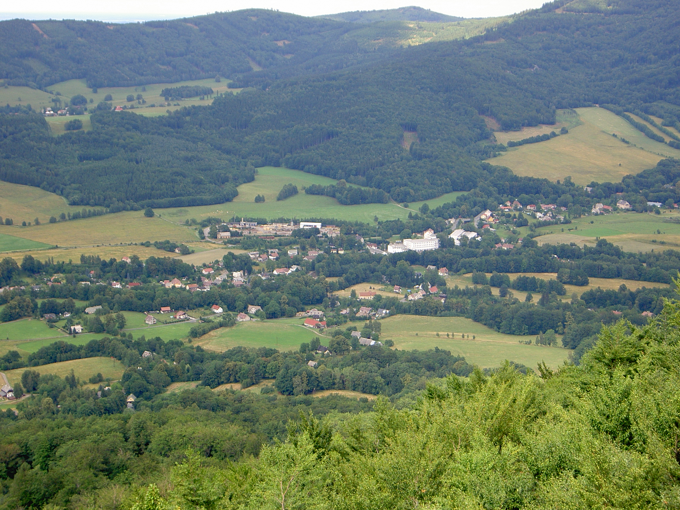 Village of Bílý Potok in Jizera Mountains, view from a top of Ořešník